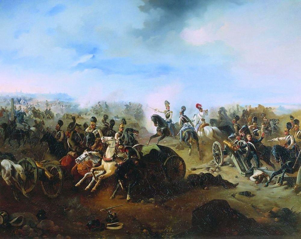 Battle of Grochów. 1831, February 25 (February 13 at Julian Calandar)